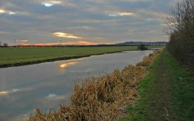 Grand Union Canal near Leighton Buzzard. This is the Grand Union canal South of Leighton Buzzard between Grove and Grove Lock. Ice is visible on the surface of the water.